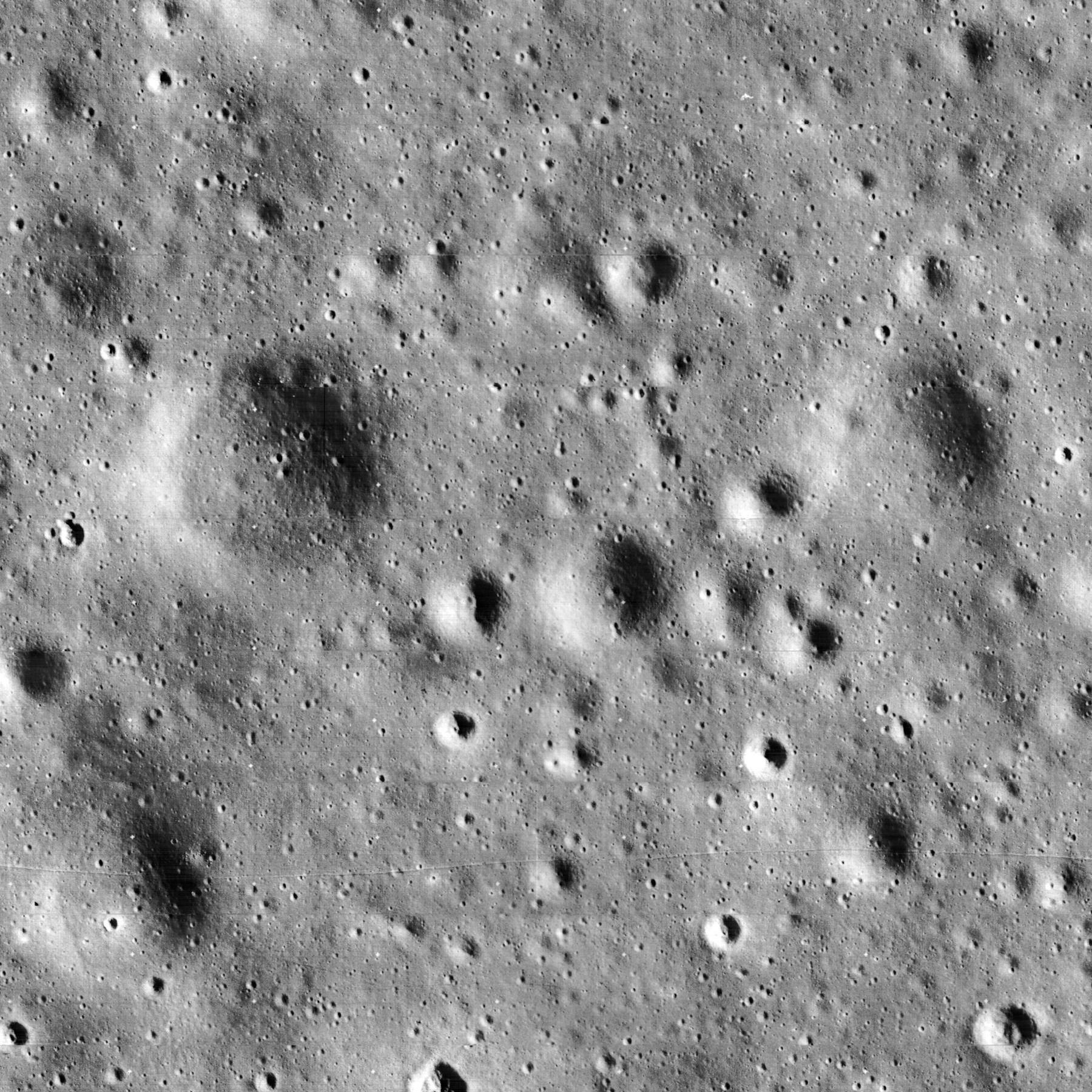 Apollo 12 landing site, Oceanus Procellarum, on the moon. The image is centered precisely on the location of the lunar module Intrepid. The area shown is approximately 1.75 km x 1.75 km across.